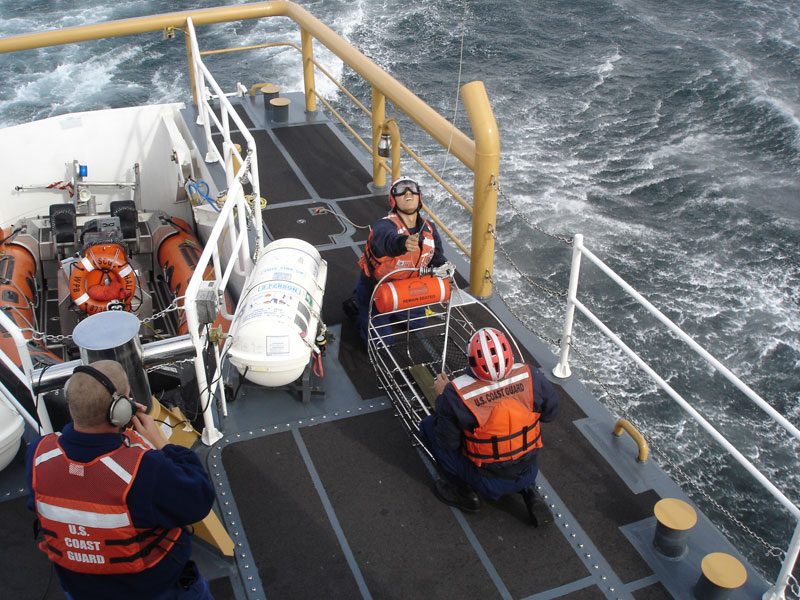 USCGC Halibut's stern launching ramp showing its Short Range Prosecutor water-jet propelled launch.